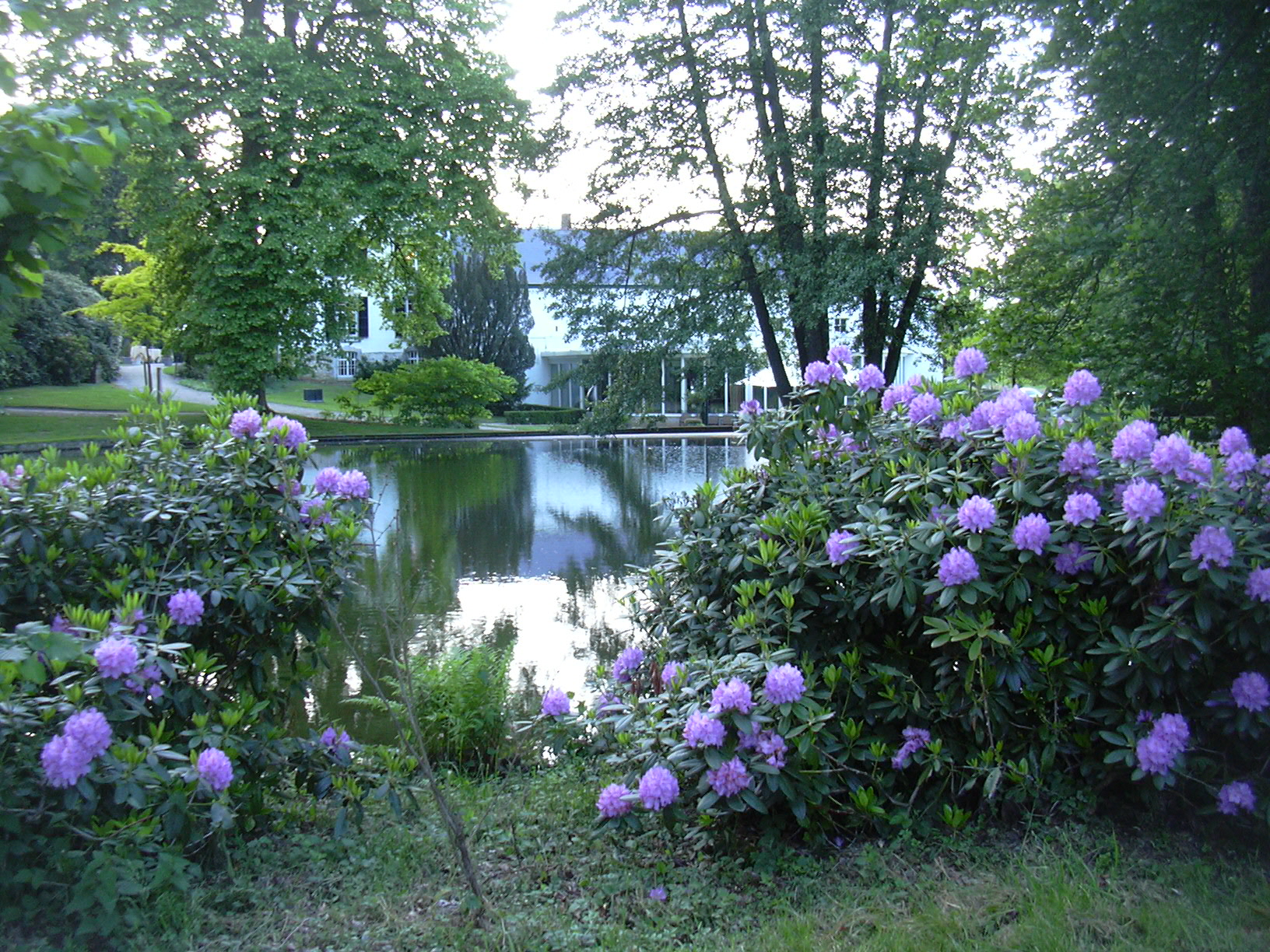 Vaalsbroek Castle, park, near "Drielandenpunt" frontier Germany / The Netherlands / Belgium